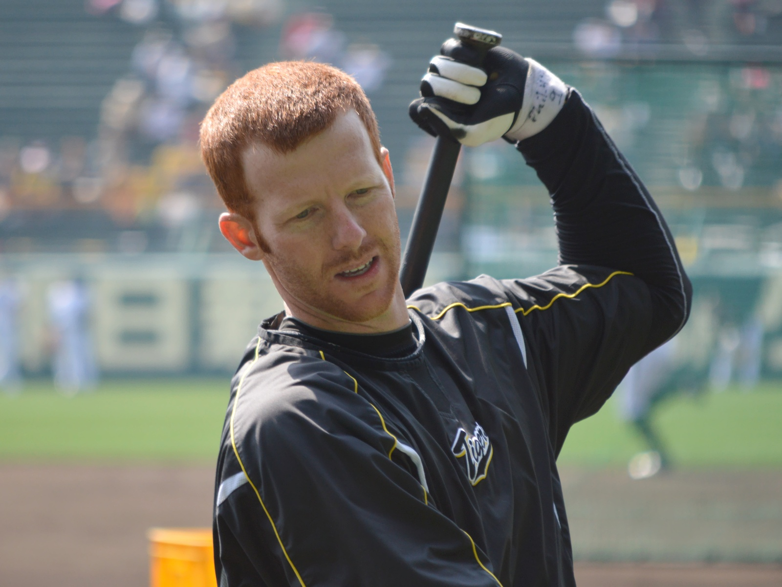 Matt Murton, outfielder of the Hanshin Tigers, at Hanshin Koshien Stadium.